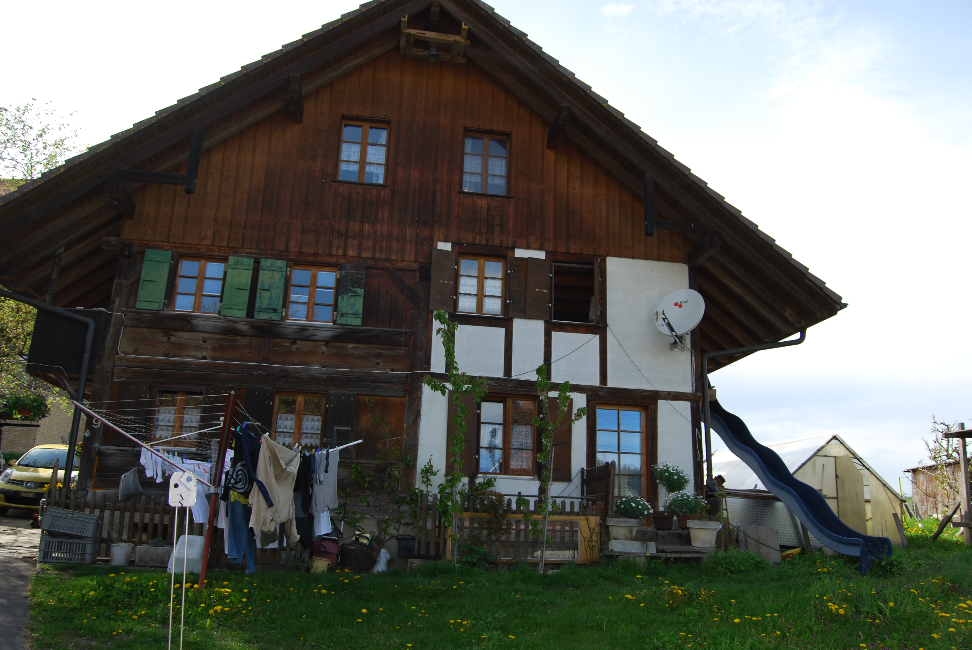 Clavaleyres, canton of Bern, SwitzerlandEsperanto: Clavaleyres, Kantono Berno, Svislando